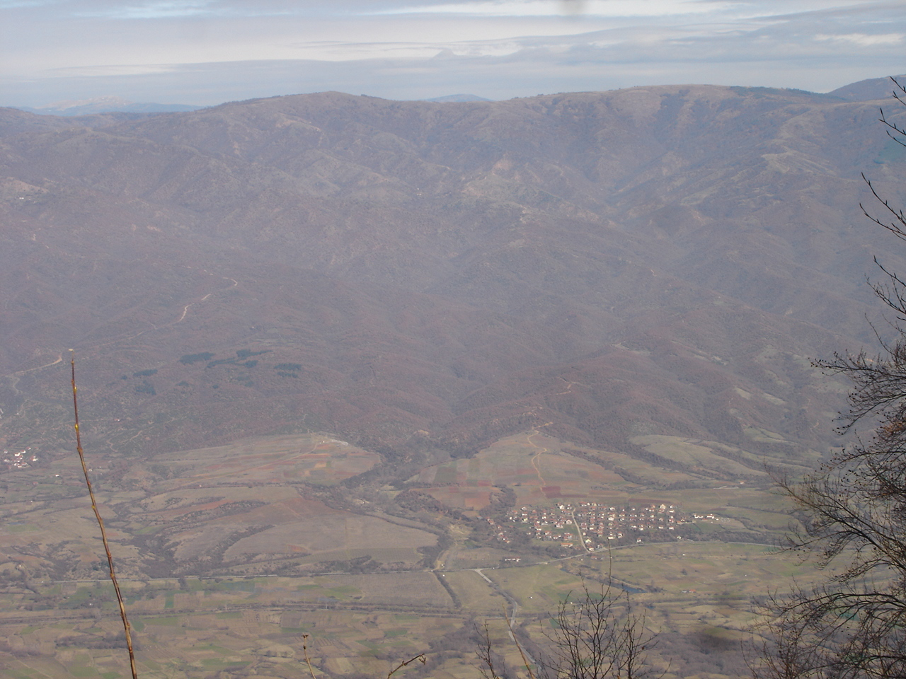 Samoilovo village on the foothills of Ograzhden mountain, Strumica region, Macedonia